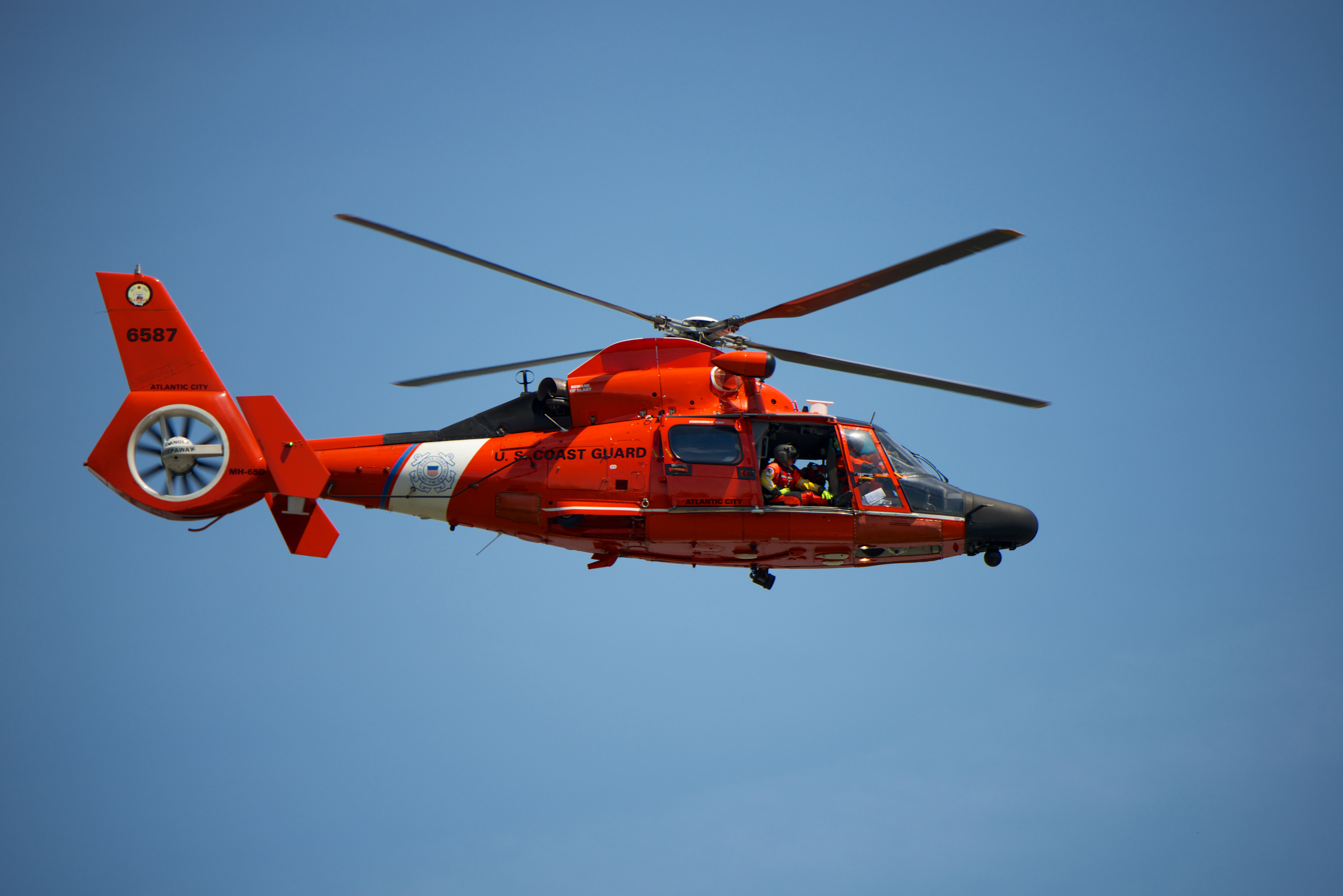 Atlantic City Coast Guard Helicopter doing a flyover on Memorial Day